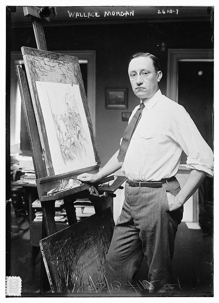 Wallace Morgan on May 23, 1913, 1 negative: glass; 5 x 7 in. or smaller. Library of Congress, Prints and Photographs Division, Washington, D.C. 20540 USA. Note: Title and date from data provided by the Bain News Service on the negative. Forms part of: George Grantham Bain Collection (Library of Congress). Format: Glass negatives. Repository: General information about the Bain Collection is available at Persistent URL: Call Number: LC-B2- 2610-7